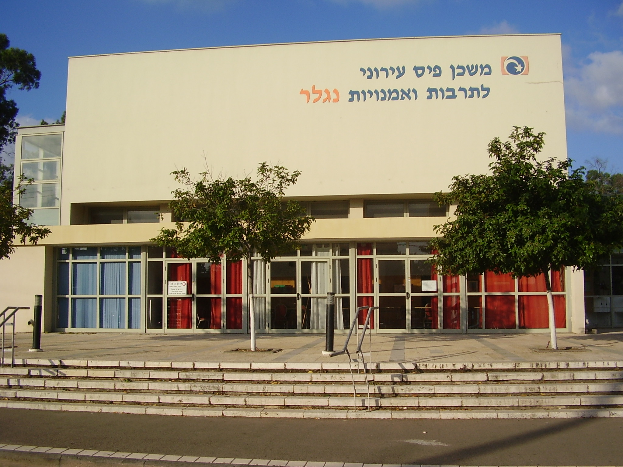 Nagler house in Kiryat Haim, Haifa